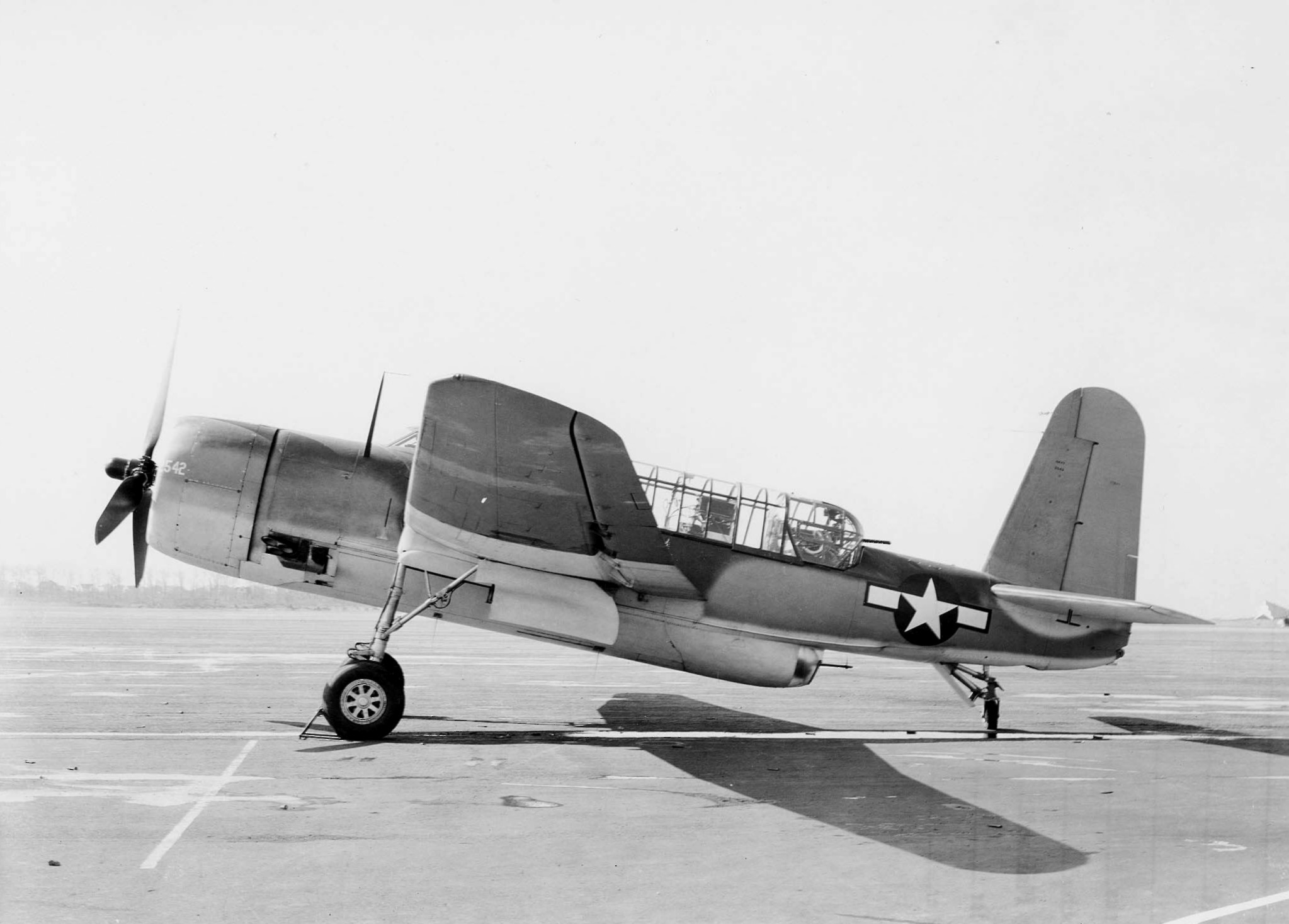 The U.S. Navy Vought XTBU-1 prototype (BuNo 2542), in 1943-44. The aircraft later became known as the TBY Sea Wolf. However, the original design was not by Consolidated Aircraft, but rather by Vought, who designed the then XTBU-1 to a 1939 U.S. Navy requirement. Its performance was deemed superior to the Grumman TBF-1 Avenger and the Navy placed an order for a 1,000 examples. Several unfortunate incidents intervened; the prototype was damaged in a rough arrested landing trial, and when repaired a month later was again damaged in a collision with a training aircraft. Once repaired again, the prototype was accepted by the Navy. However, by this time Vought was heavily over-committed to other contracts, especially for the F4U Corsair fighter, and had no production capacity. It was arranged that Consolidated-Vultee would produce the aircraft (as the TBY), but this had to wait until the new production facility in Allentown, Pennsylvania was complete, which took until late 1943. The production TBYs were radar-equipped, with a radome under the right-hand wing. The first one flew on 20 August 1944. By this time, though, the TBF equipped every torpedo squadron in the Navy, and there was no need for the TBY. Orders were cancelled after production started, and the 180 built were used for training.